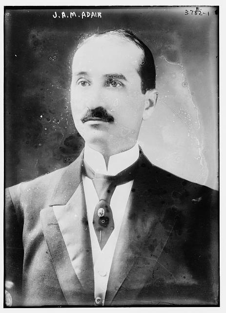 John A. M. Adair, U.S. Representative from Indiana.